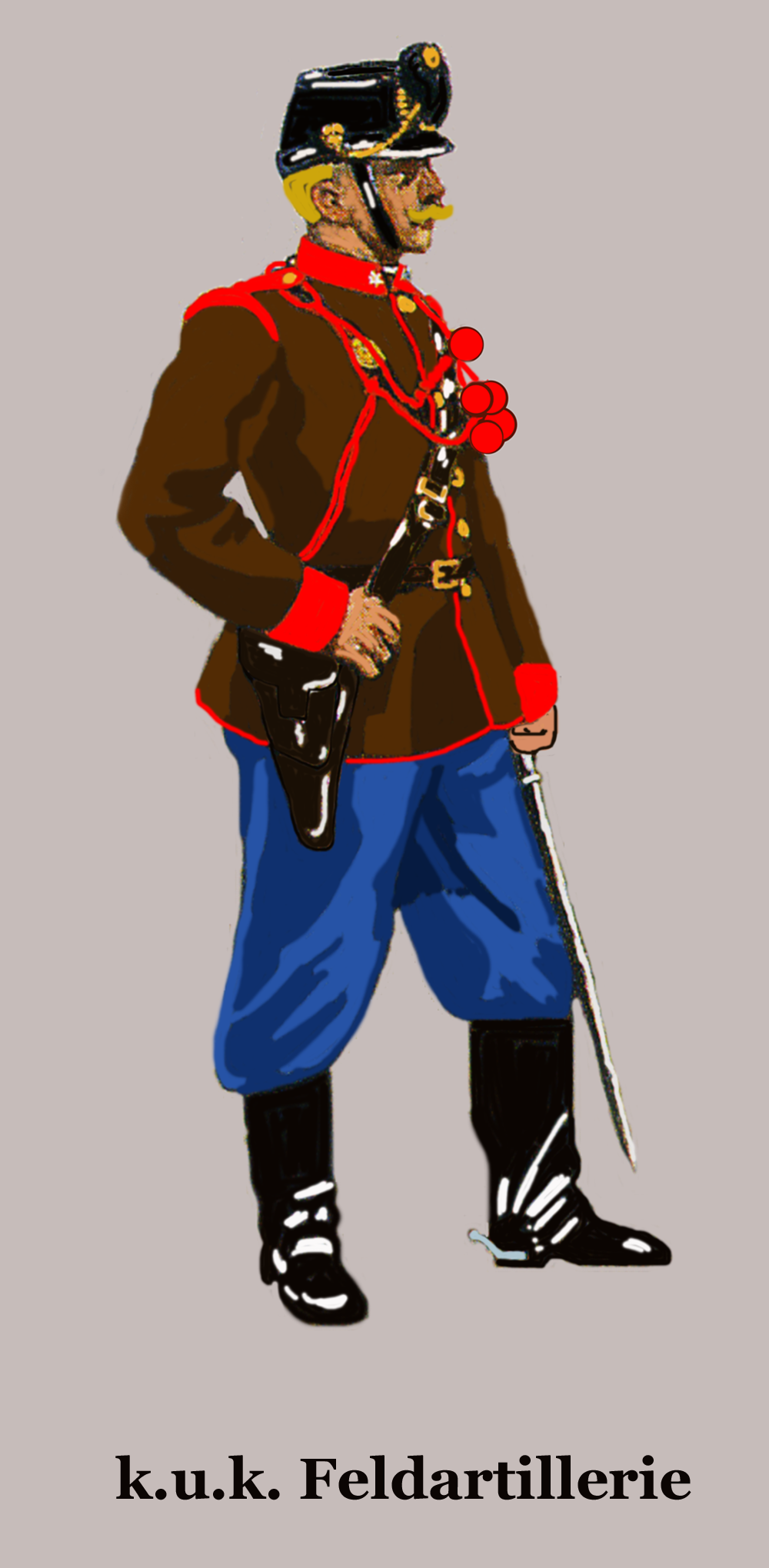 Private first class of the k.u.k. Field-artillery in paradedress before 1908